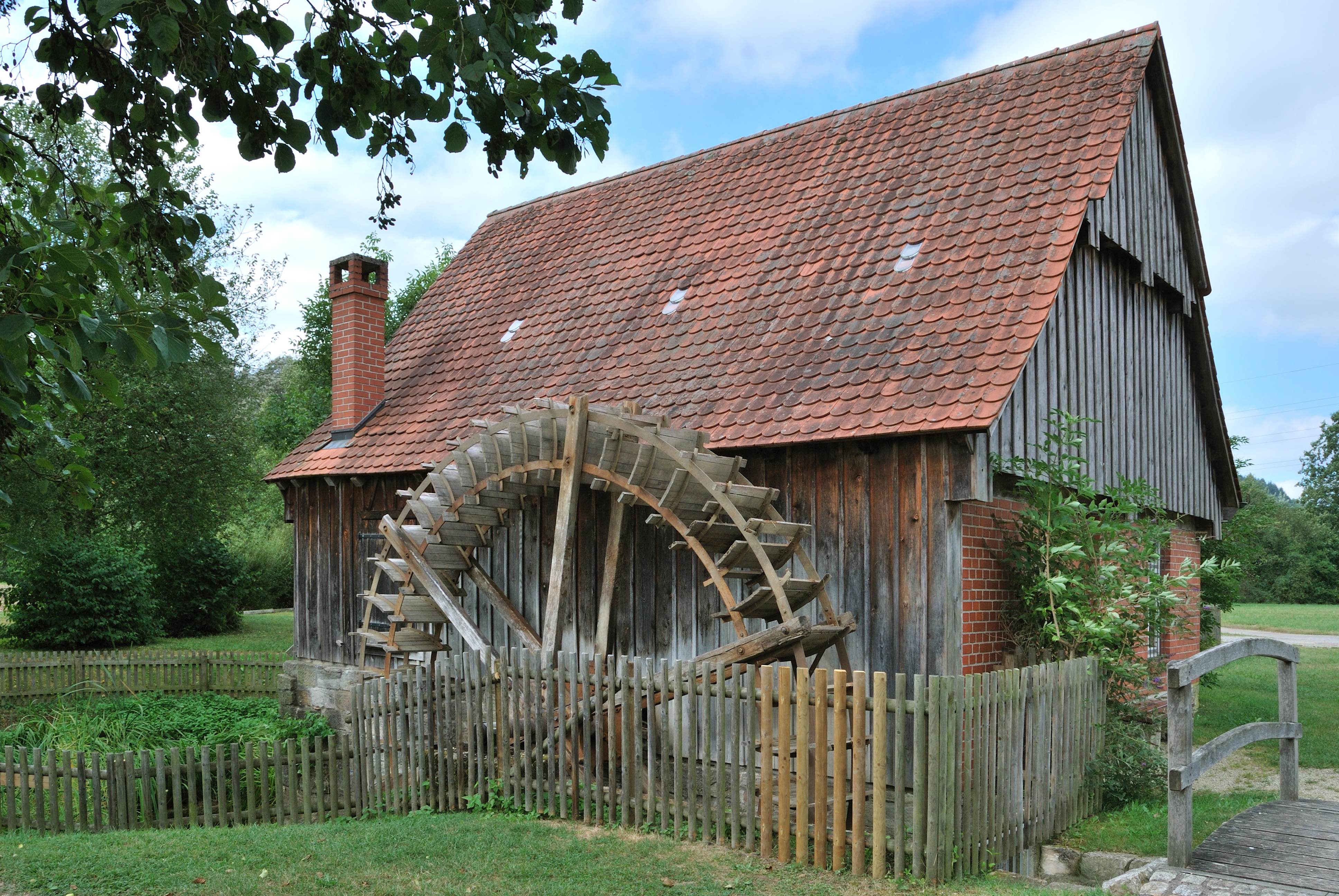 Former oil mill in Michelau in the Rems-Murr district